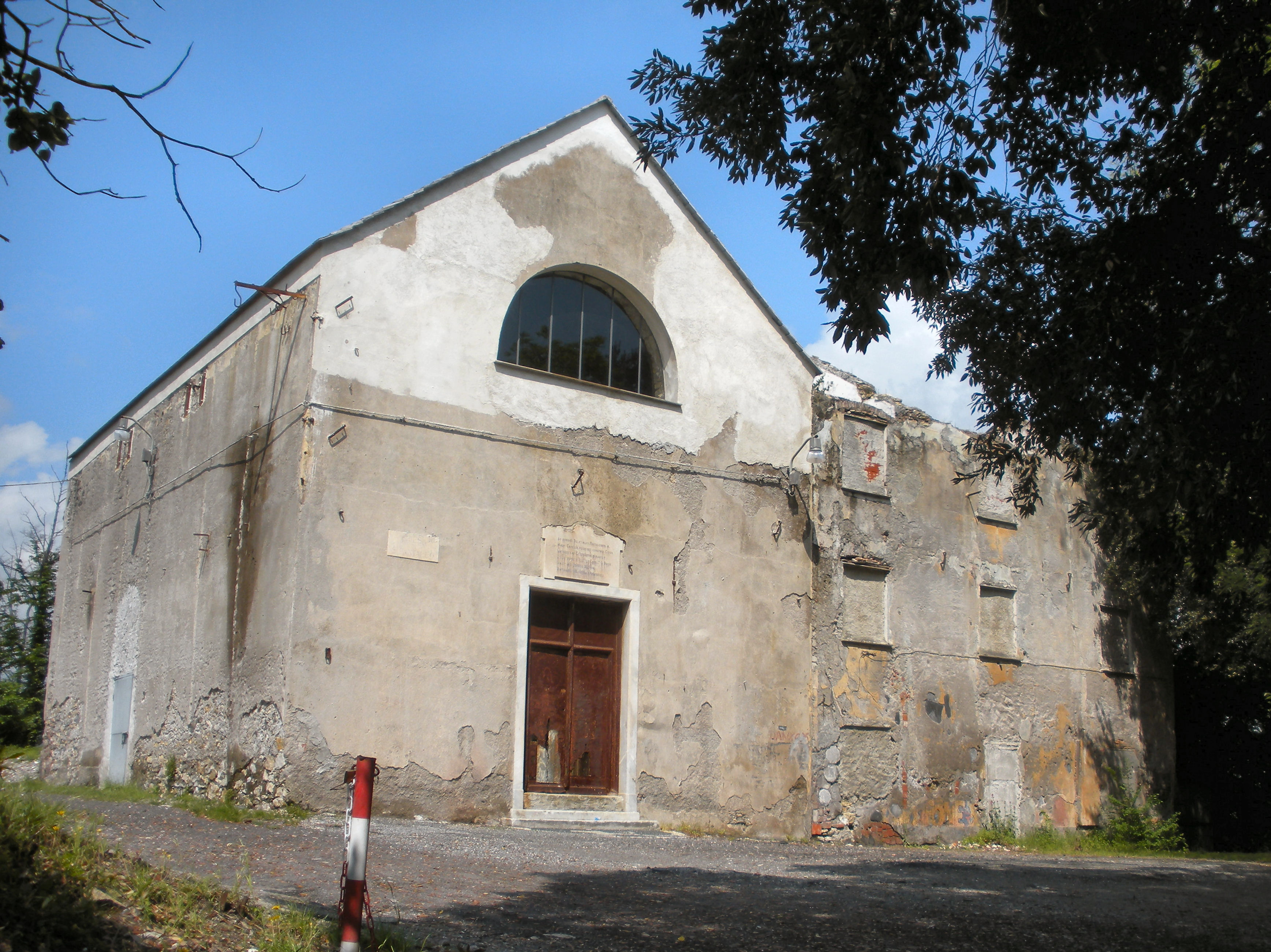 Genoa (Italy), quarter of Staglieno, church of St. Pantaleo